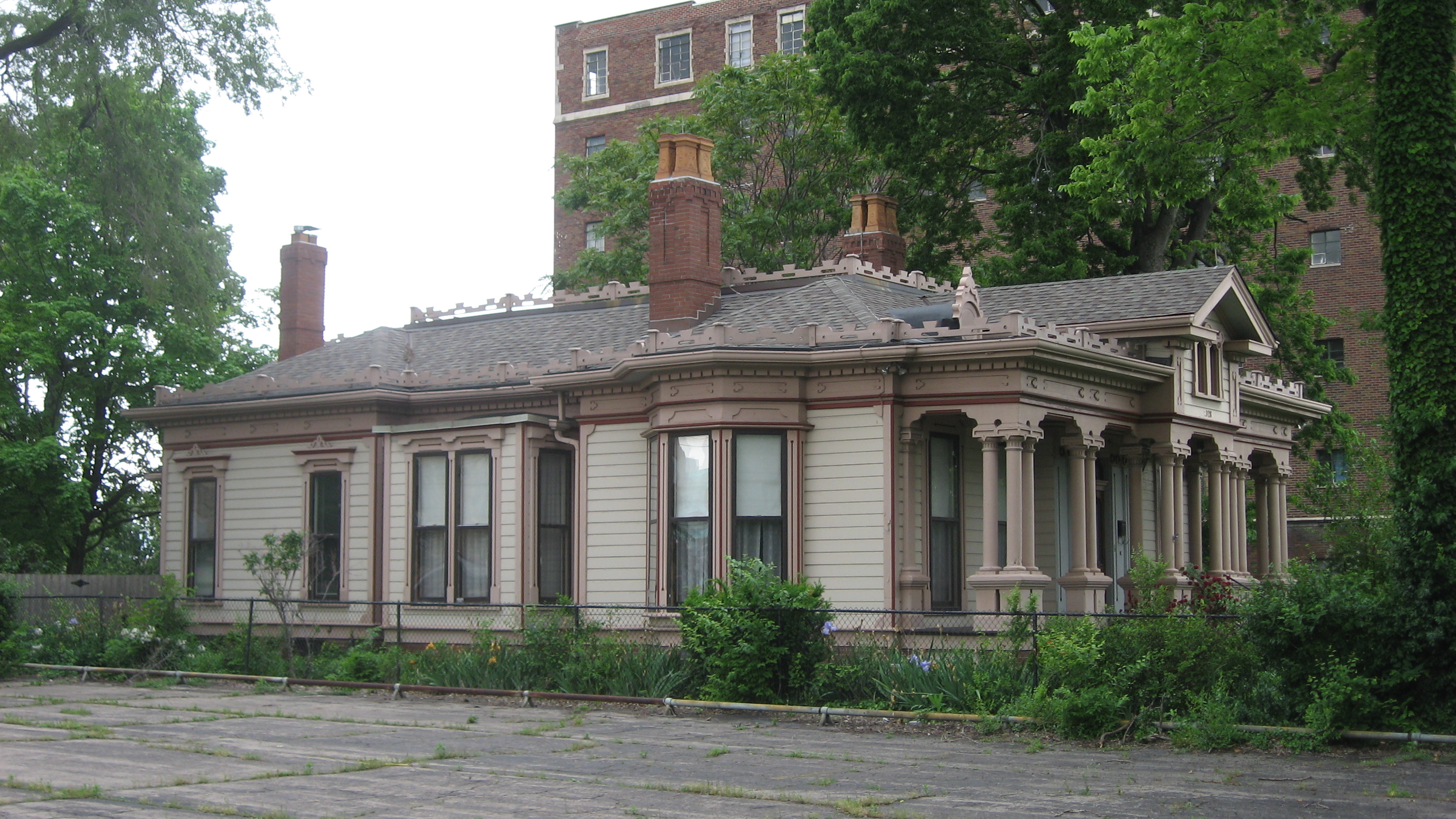 Southern side and front of the Pierson-Griffiths House, located at 1028 N. Delaware Street in Indianapolis, Indiana, United States. Built in 1883, it is listed on the National Register of Historic Places.